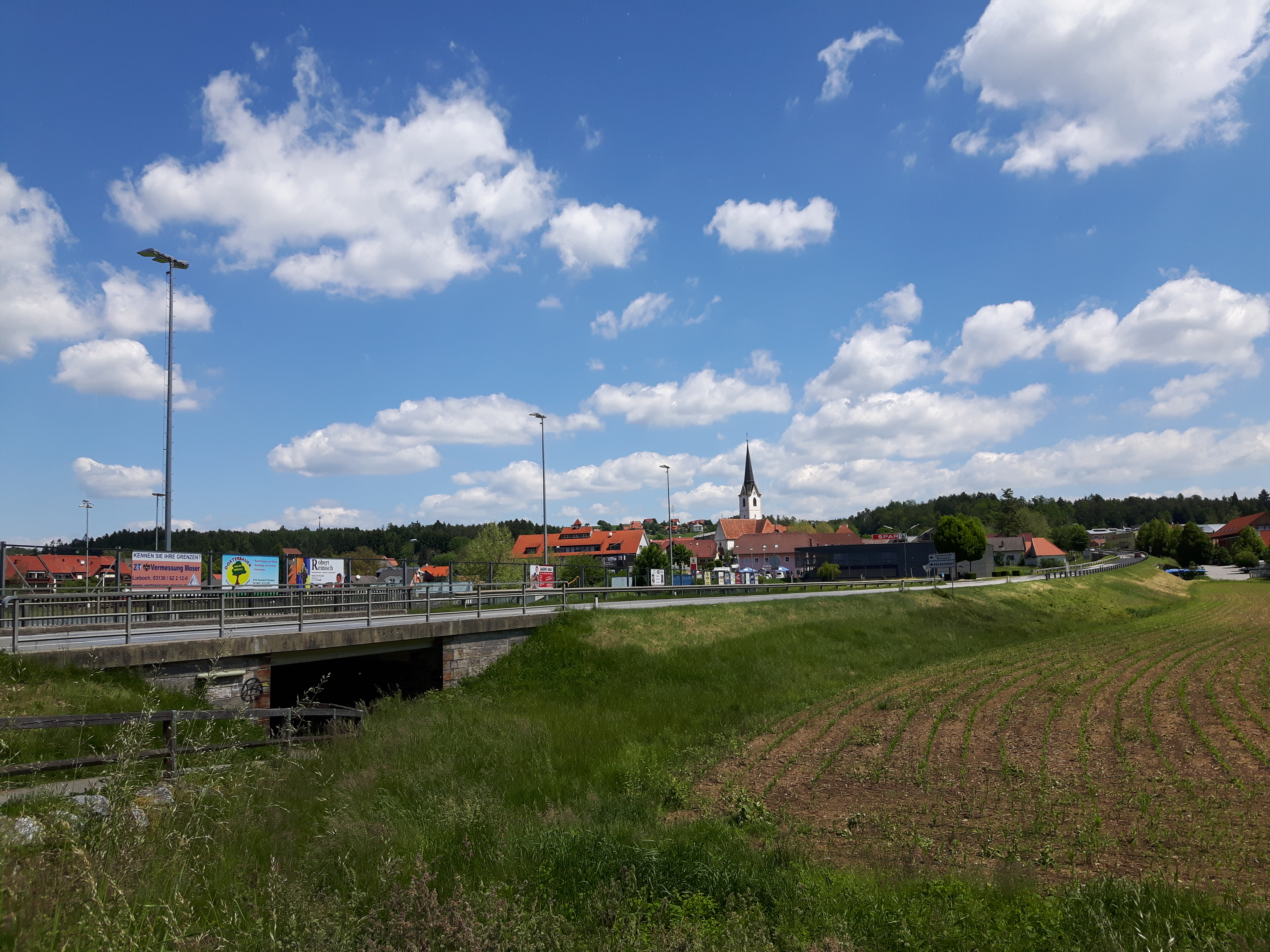 View of Hitzendorf from soutwest